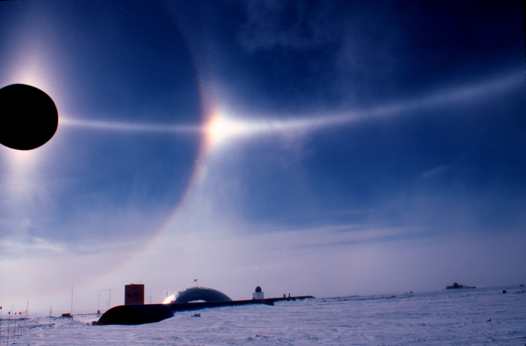 22° halo, sundog (parhelion), Parhelic circle, and possible Lowitz arc (very rare, more or less vertical, faint arc radiating up and down from the sundog), Antarctica, South Pole Station